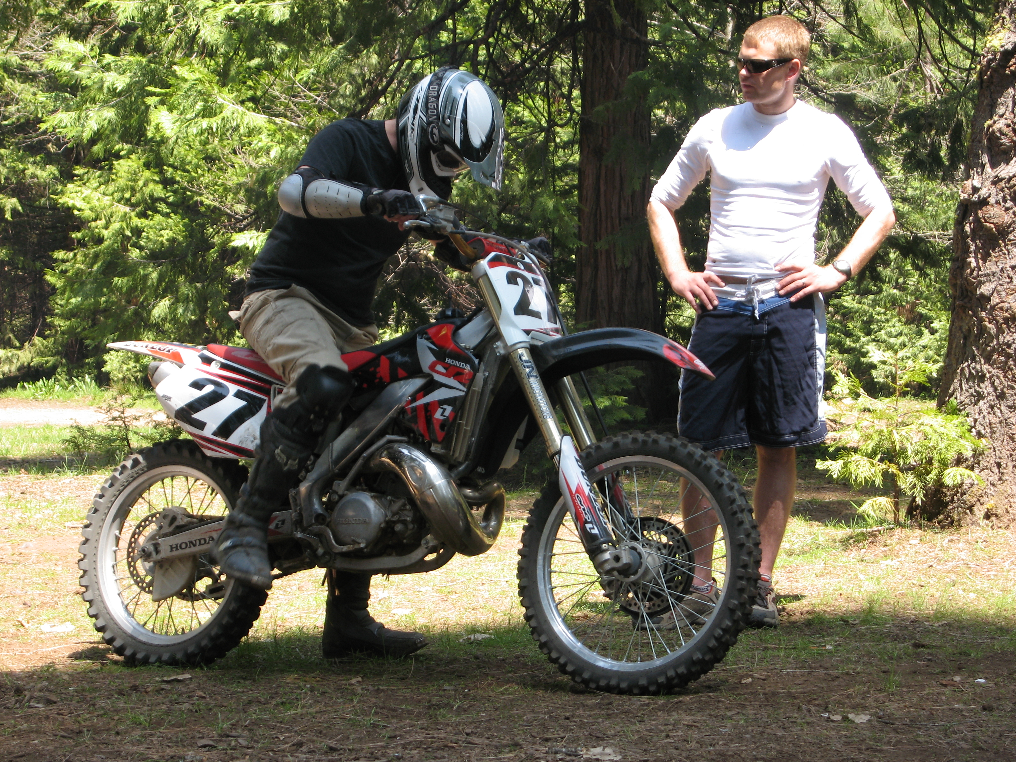 Will getting started on Matt's CR250